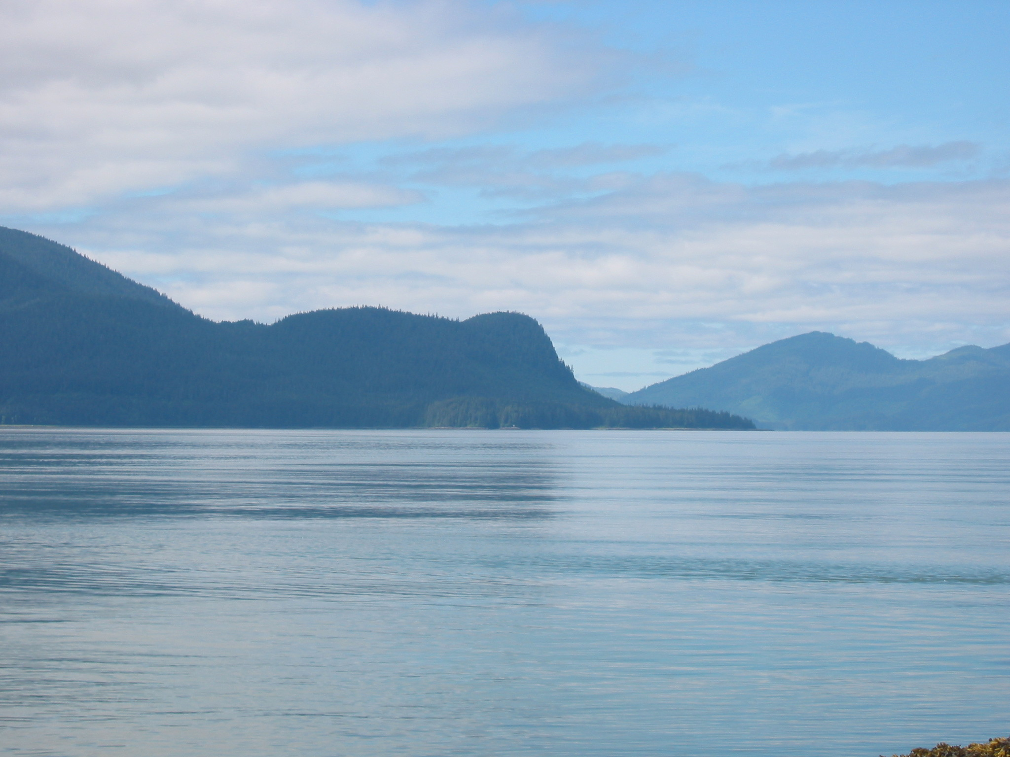 The “Elephant’s Nose” point on Woronofski Island as seen from Wrangell, Alaska.